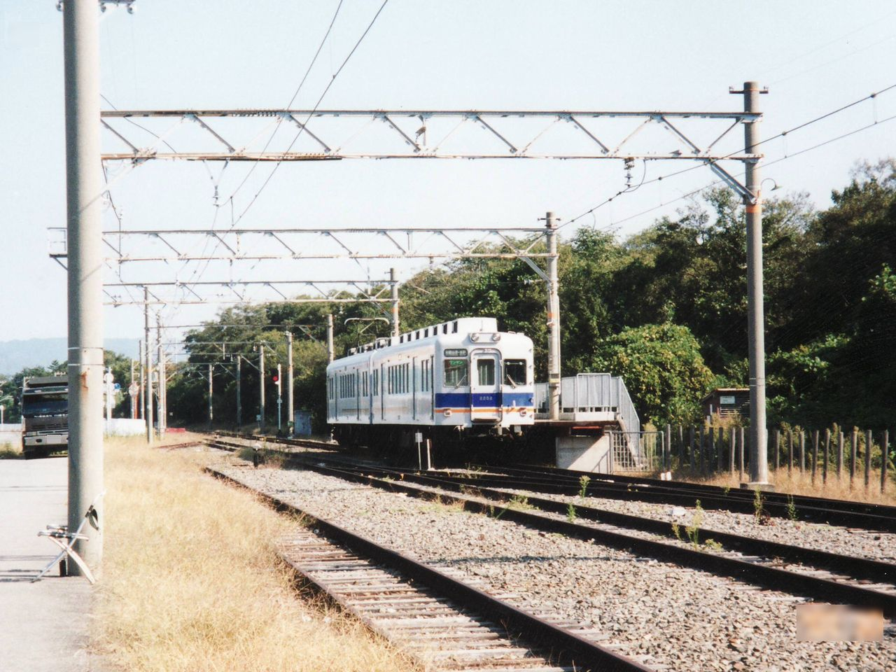 Suiken Station, Nankai Wakayamakō Line, Wakayama City, Wakayama, Japan. Scanned from negative color print